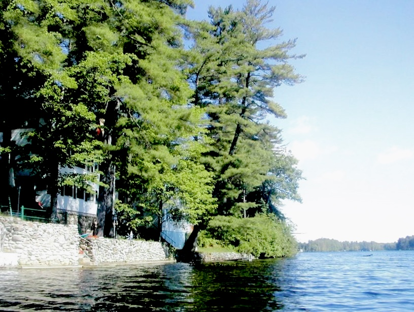 View of Bauneg beg Lake, North Berwick/Sanford, Maine